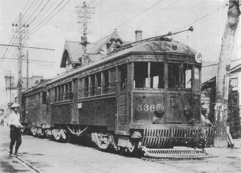 Hanshin Electric Railway #336